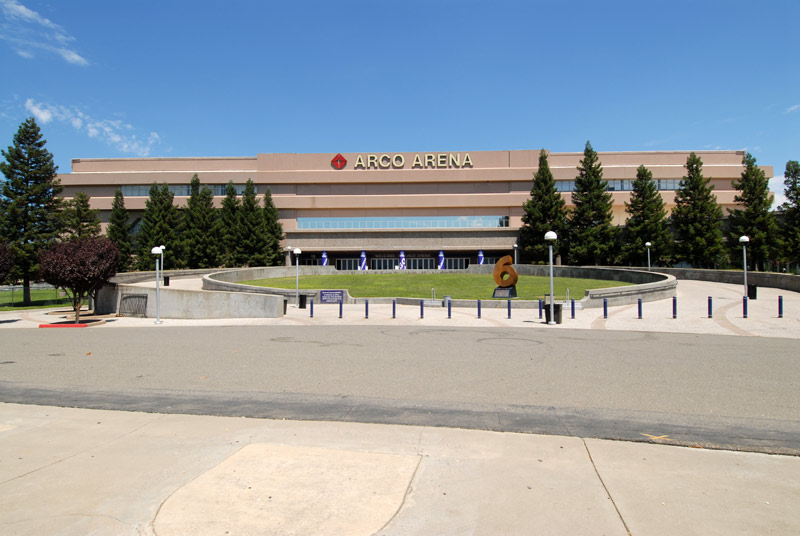 Arco Arena. Photo taken on 30 July 2006 by Paul R. Kucher IV